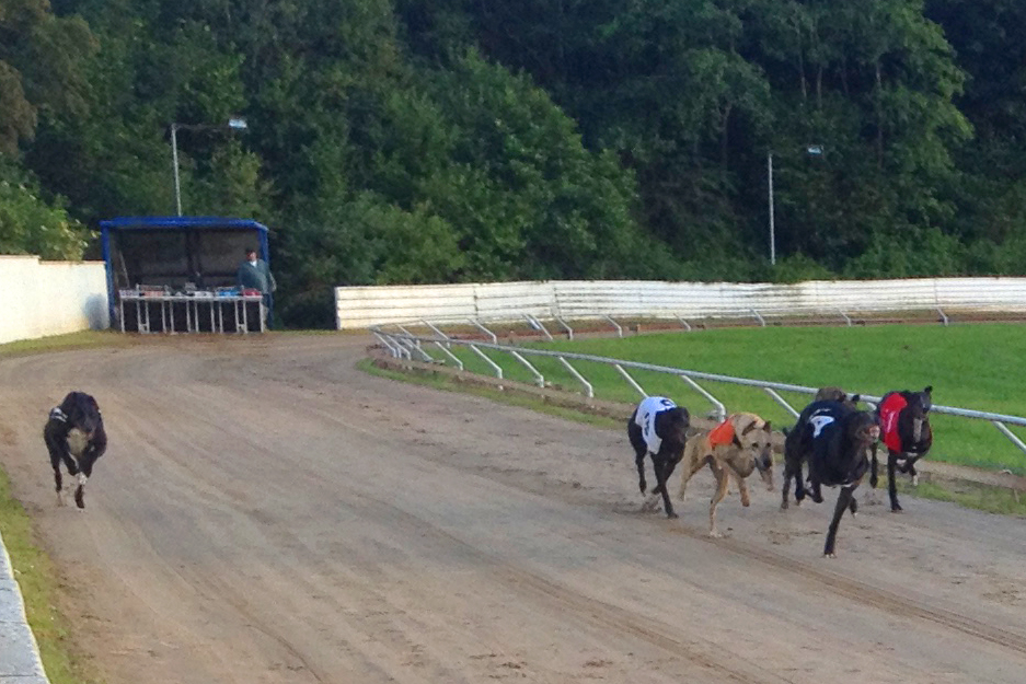 Race meetings are held every Thursday and Saturday evening at the Valley Greyhound Stadium